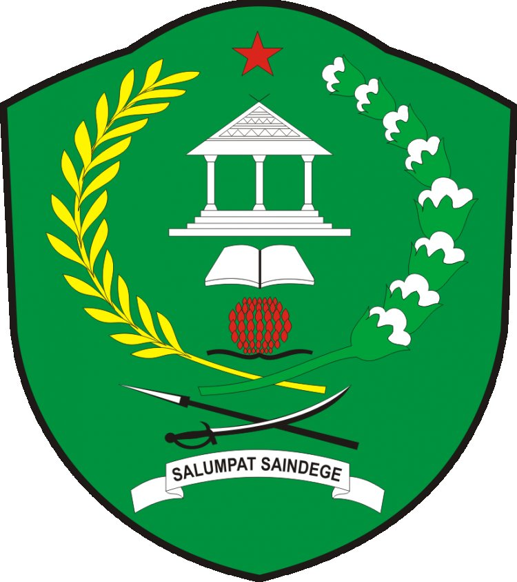 Coat of arms of Padang Sidempuan, North Sumatra